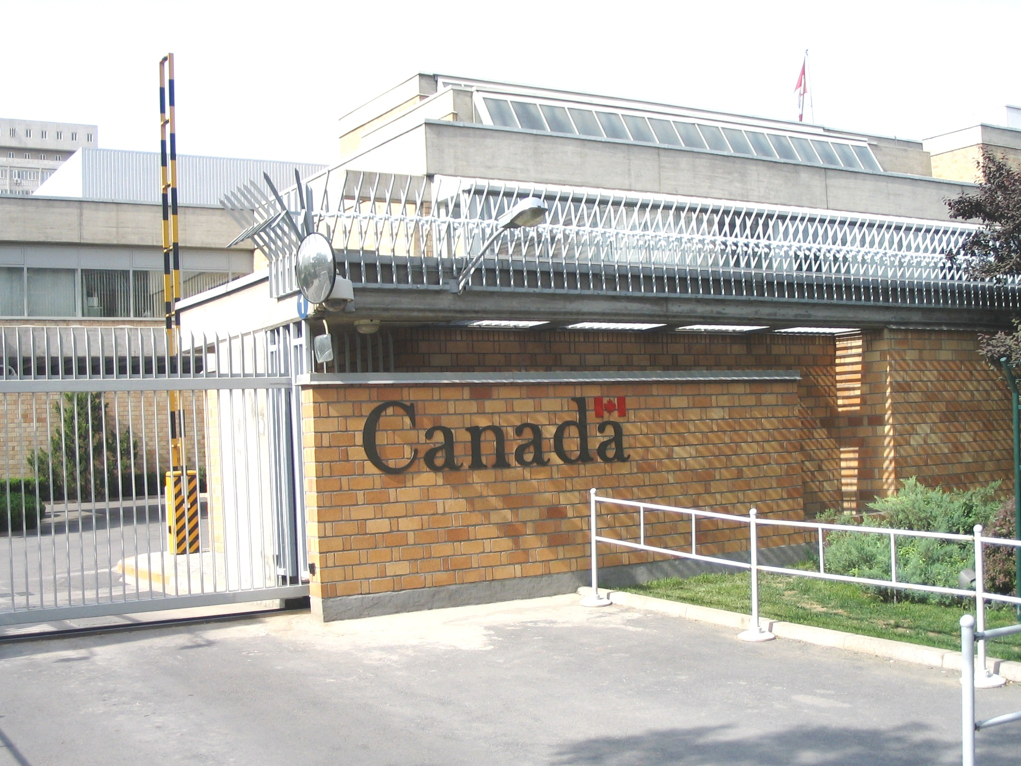 Canadian Embassy in Beijing - 19 Dongzhimenwai Dajie Chao Yang District Beijing 100600 PRC